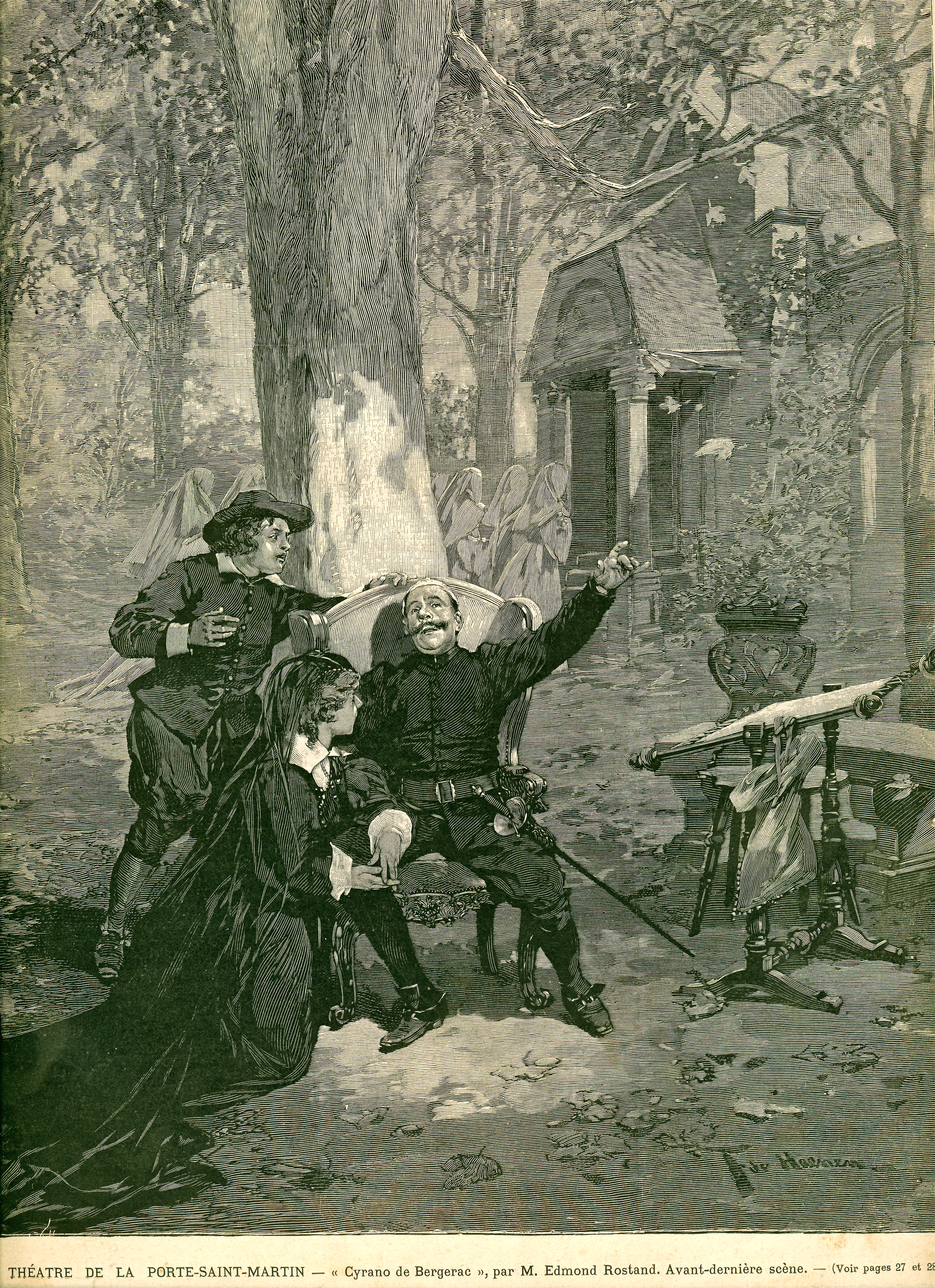 Last-but-one scene of Cyrano de Bergerac at Théâtre de la Porte Saint-Martin, Paris, dec.1897